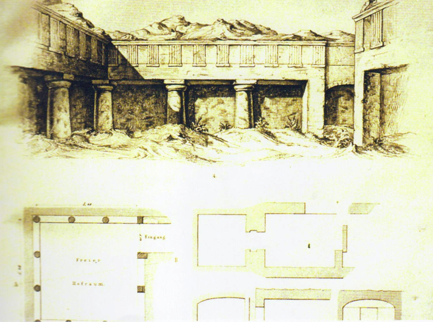 Tombs of the Kings (Paphos). Drawing by Ludwig Ross (1806–1859): Tomb with Peristyl atrium.